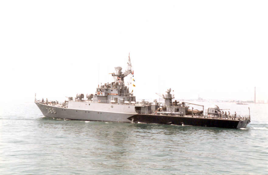 Indonesian corvette Silas Papare, former DDR Gadebusch in Málaga.